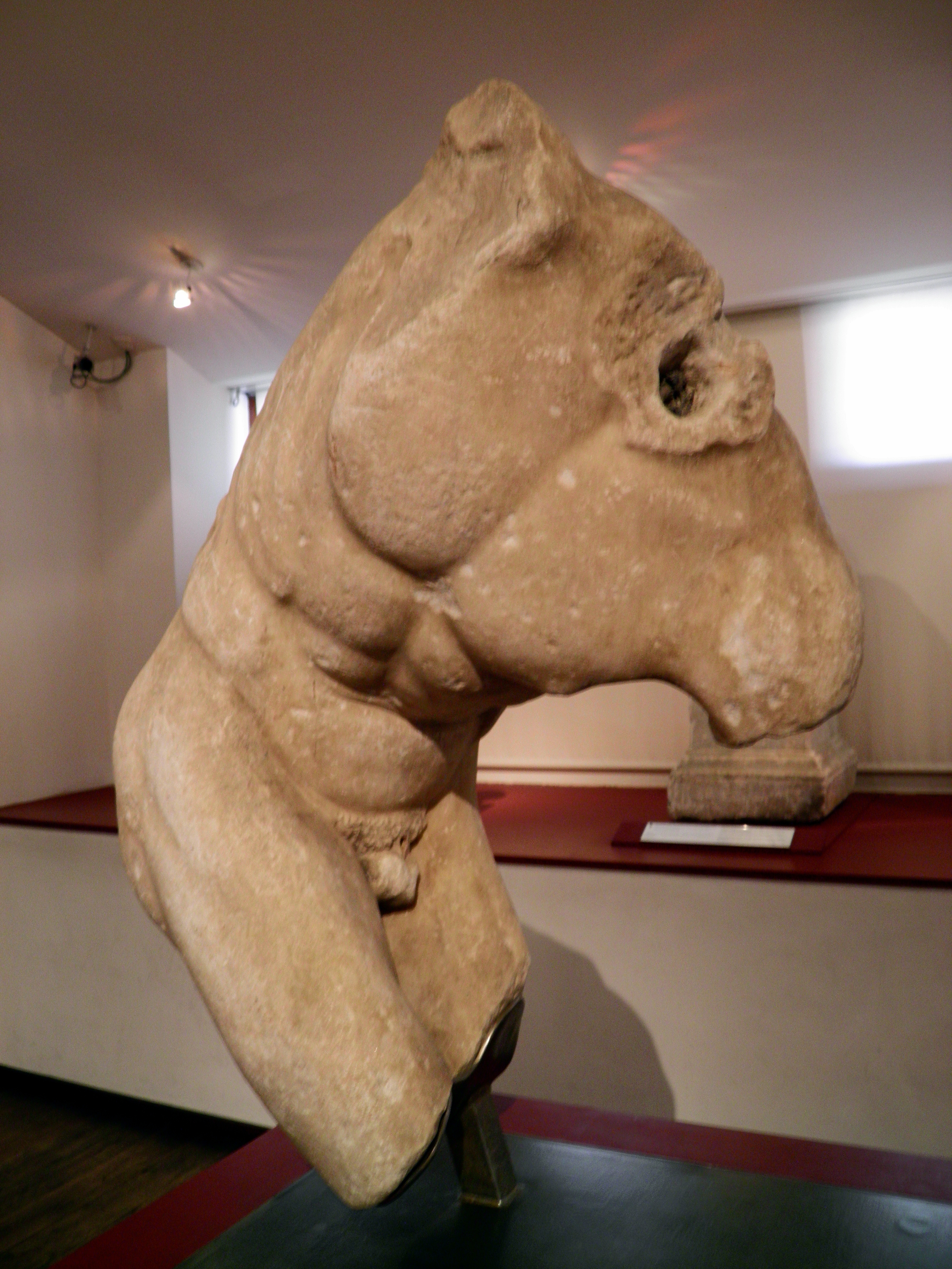 Inv. Ra 334. This fragmentary sculpture is a copy from the Roman period of one of the most well-known statues in the history of Greek art: the Discobolus, meaning the disk thrower. The original Greek bronze sculpture was designed in the fifth century BCE by one of the greatest sculptures of all times: Myron. The most complete Roman marble replica comes from Esquiline Hill in Rome and belonged to the Lacelotti family. The Musée Saint-Raymond’s marble was discovered before the Lancelotti’s Discobolus, near Caracassone, in the Aude’s riverbed. The work was misinterpreted and was even exhibited seated. Today, it is the only copy of the Discobolus excavated in Western Europe outside of Italy. The representations of disk throwers on sculptures, vases, and coins provide an understanding of this sport from the Greek epic. The moment chosen by Myron shows the final stage of the swing: the arm lifted high in the back while the left leg prepares to return in front to counterbalance the body’s disequilibrium caused by the throwing. The muscular tension in the abdomen and thighs is remarkable and shows that the Greeks researched the translation of movement well.